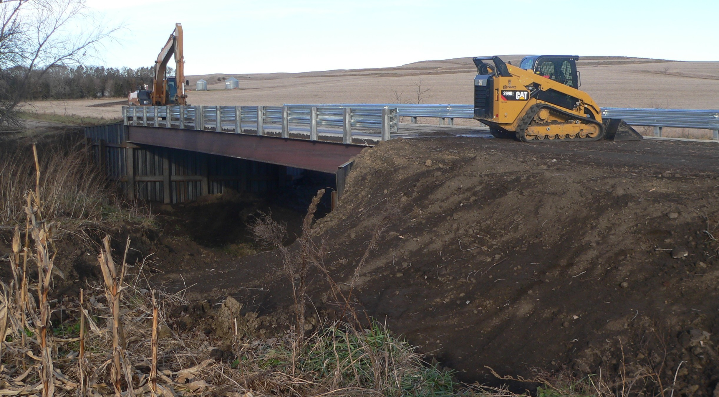 Bridge carrying county road 26 across North Omaha Creek in rural Thurston County, Nebraska. View is from the south-southwest.